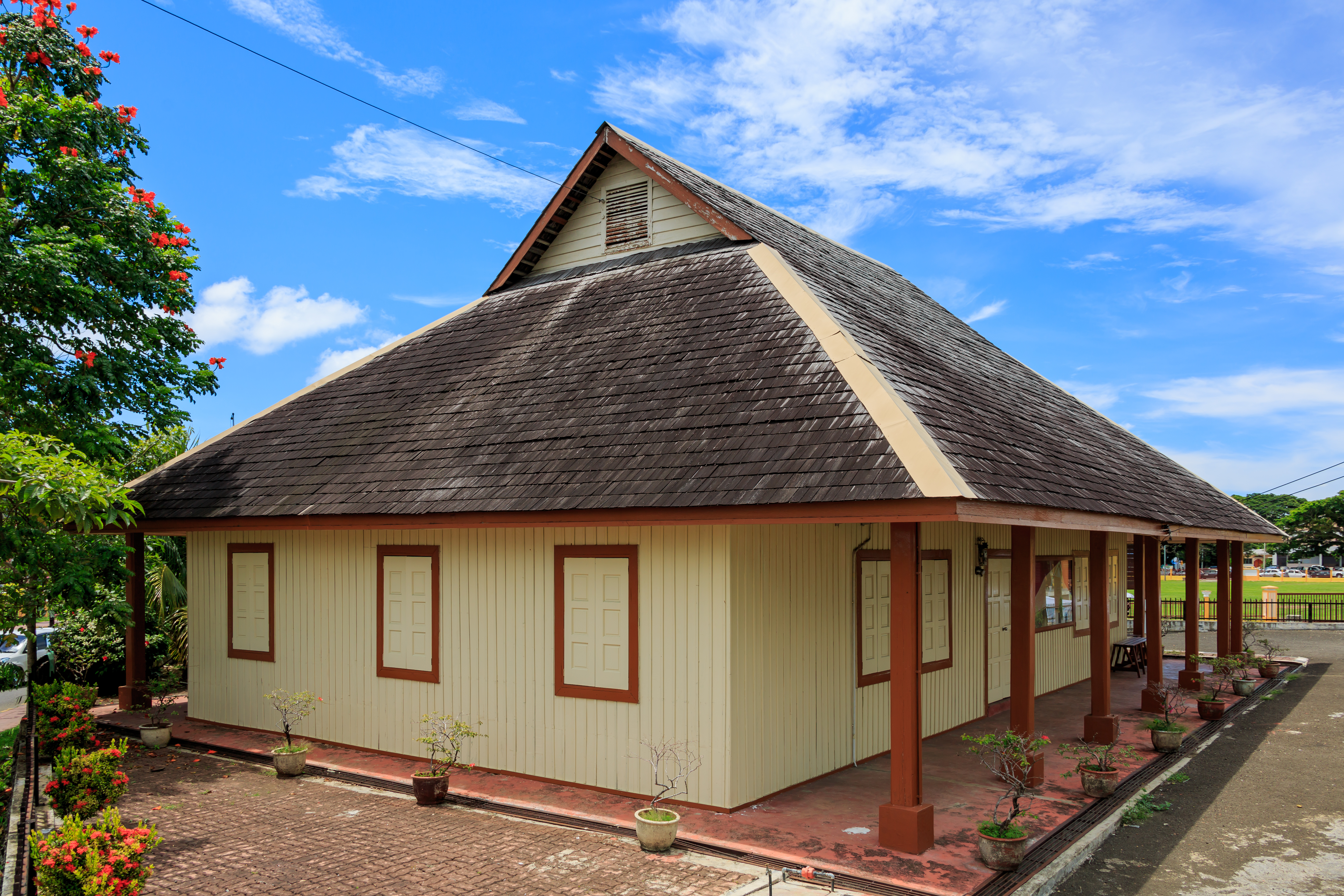 Semporna, Sabah: Galeri Warisan Semporna - the first District Office of Semporna. Today a museum.